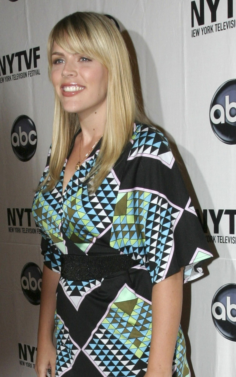 Busy Philipps at the New York Television Festival. © Rubenstein, photographer Martyna Borkowski